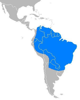 Distribution of Tapirus terrestris